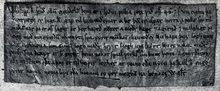 Letter from Philip Simonsson, the Bagler pretender to the Norwegian throne. It is the earliest preserved Norwegian royal letter. (p.257)